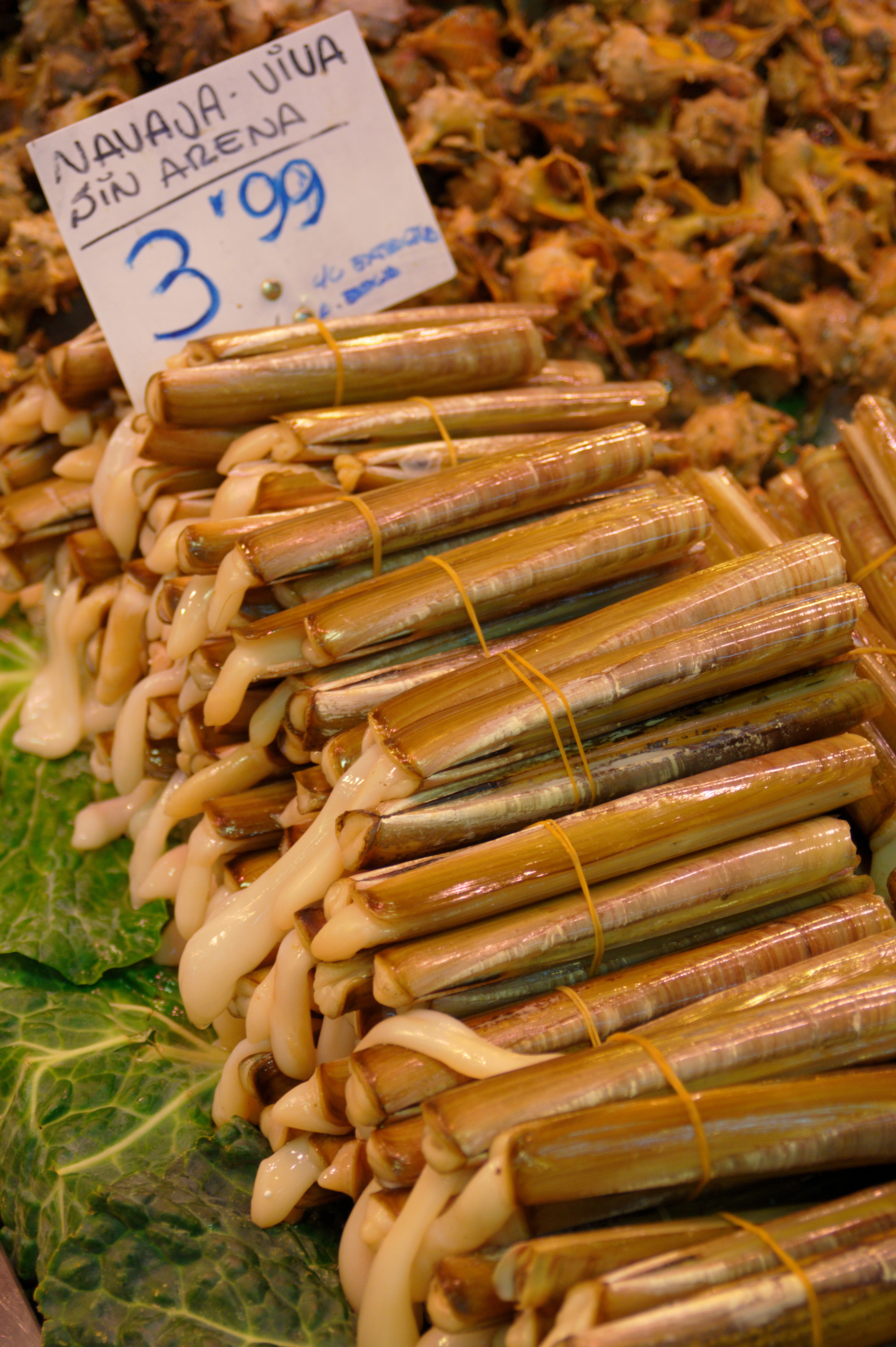 Solenoidea on sale at la Boqueria marquet in Barcelona